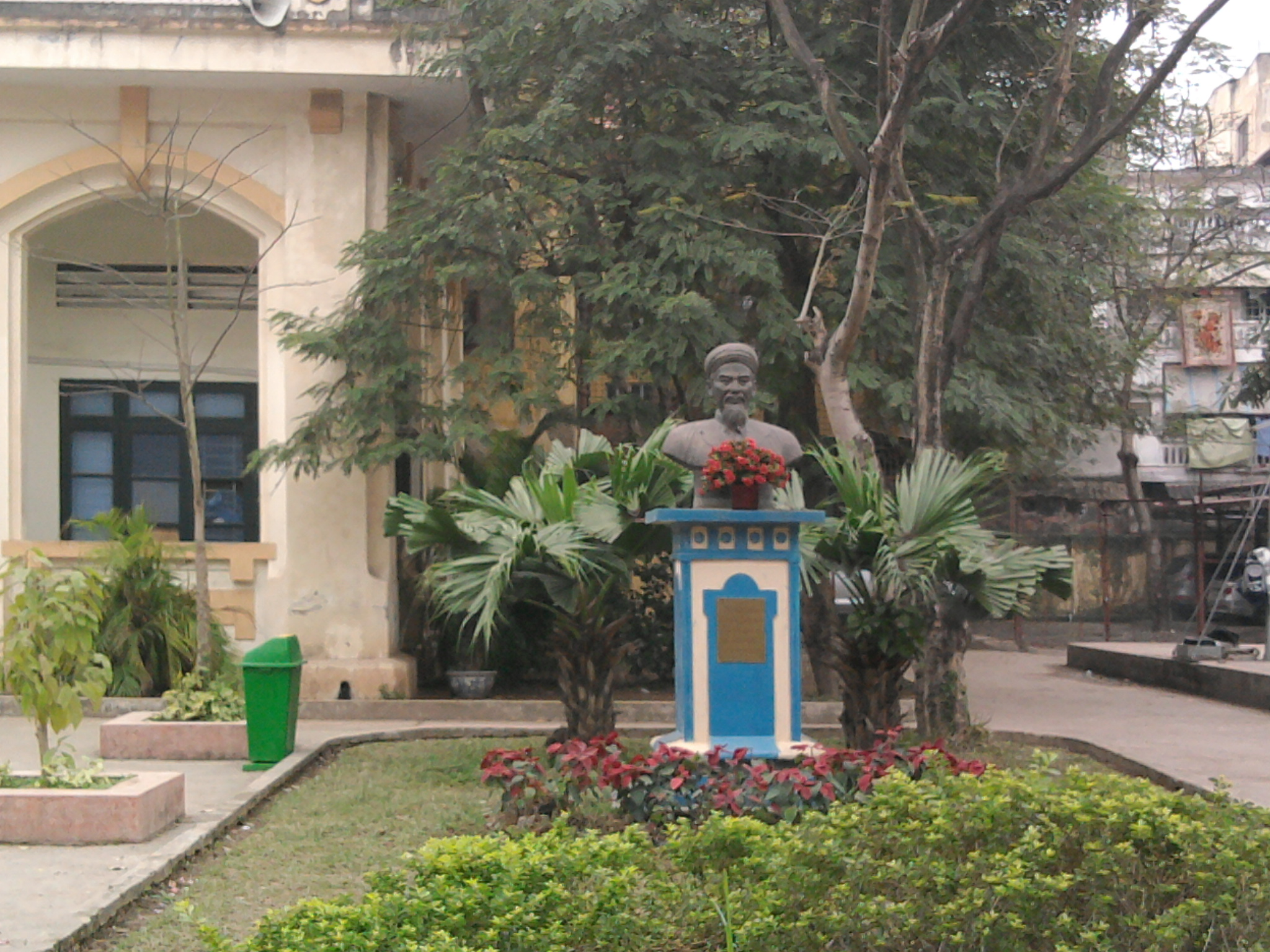 Nguyễn Công Trứ bronze statue lies in a flower bed at the centre yard of Nguyễn Công Trứ Secondary School, Ba Đình District, Hà Nội, Vietnam.